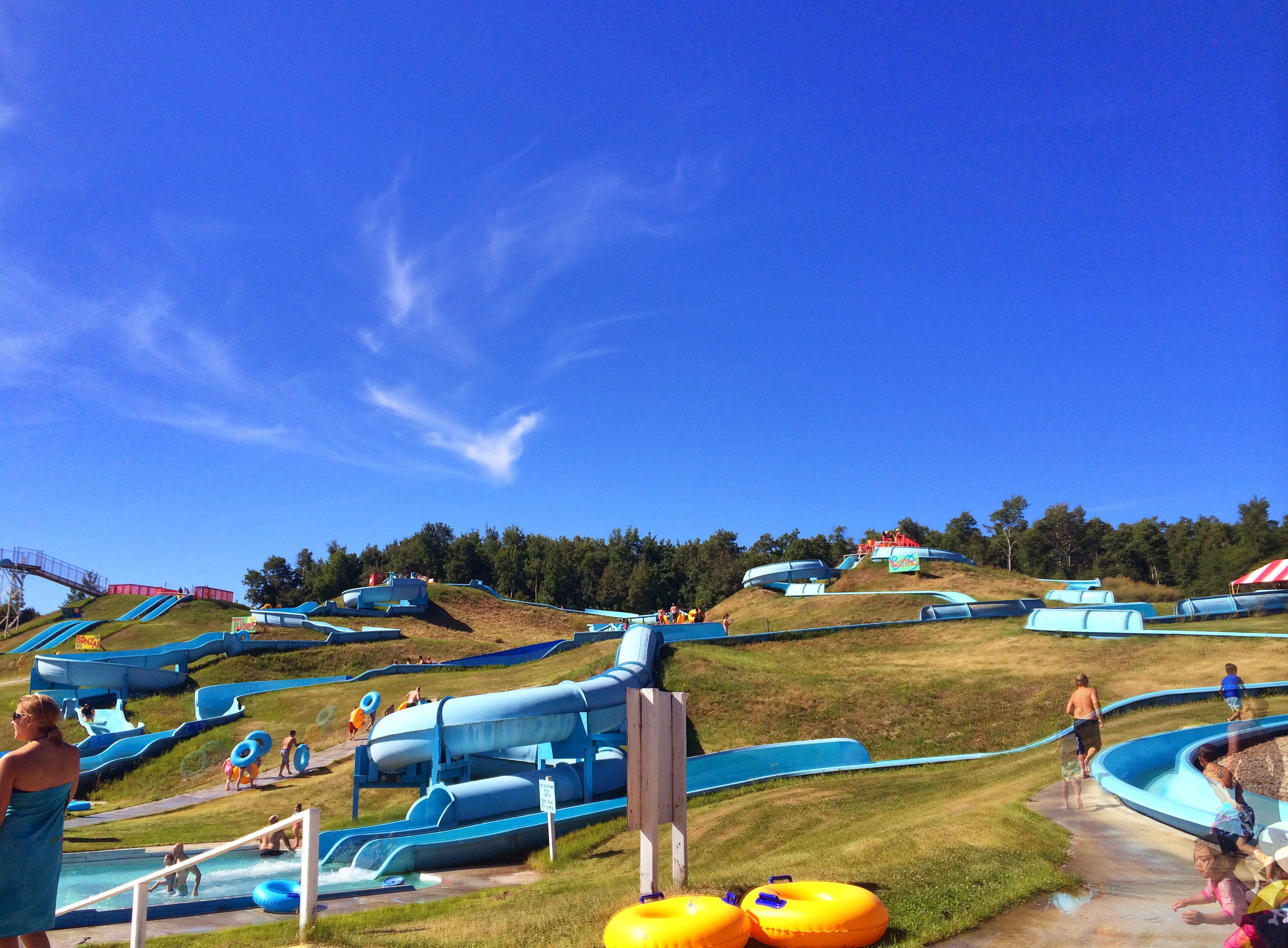 kenosee super slides, saskatchewan, canada